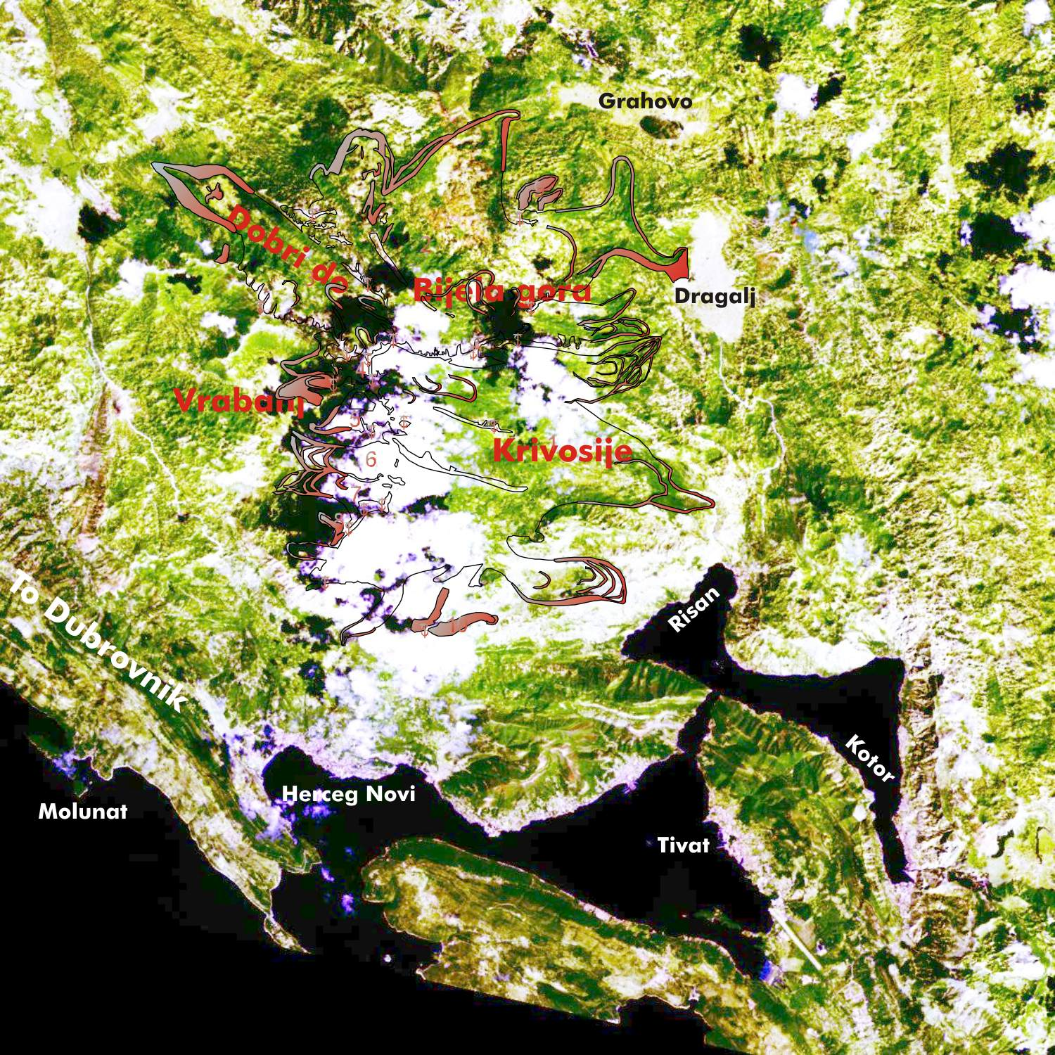 Wider region of the Bay of Kotor and glacial traces on Orjen Copyright (c) 2005 Pavle Cikovac